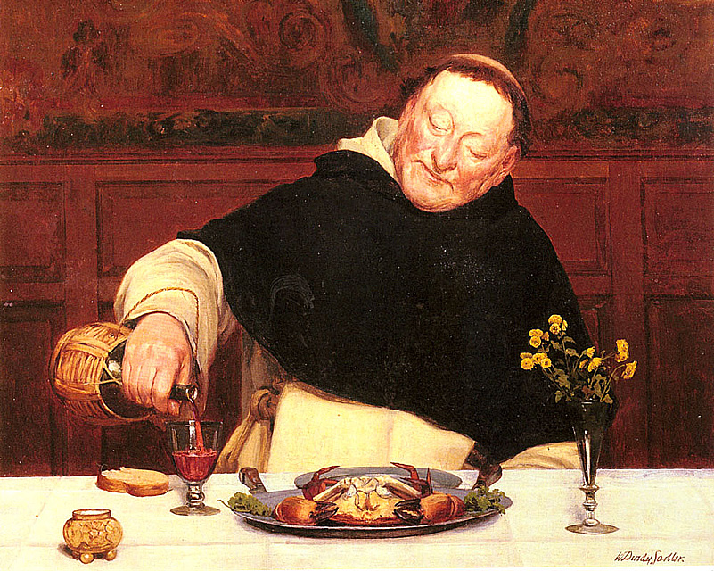 The monks repastlabel QS:Len,"The monks repast" label QS:Lfr,"Le repas du moine"